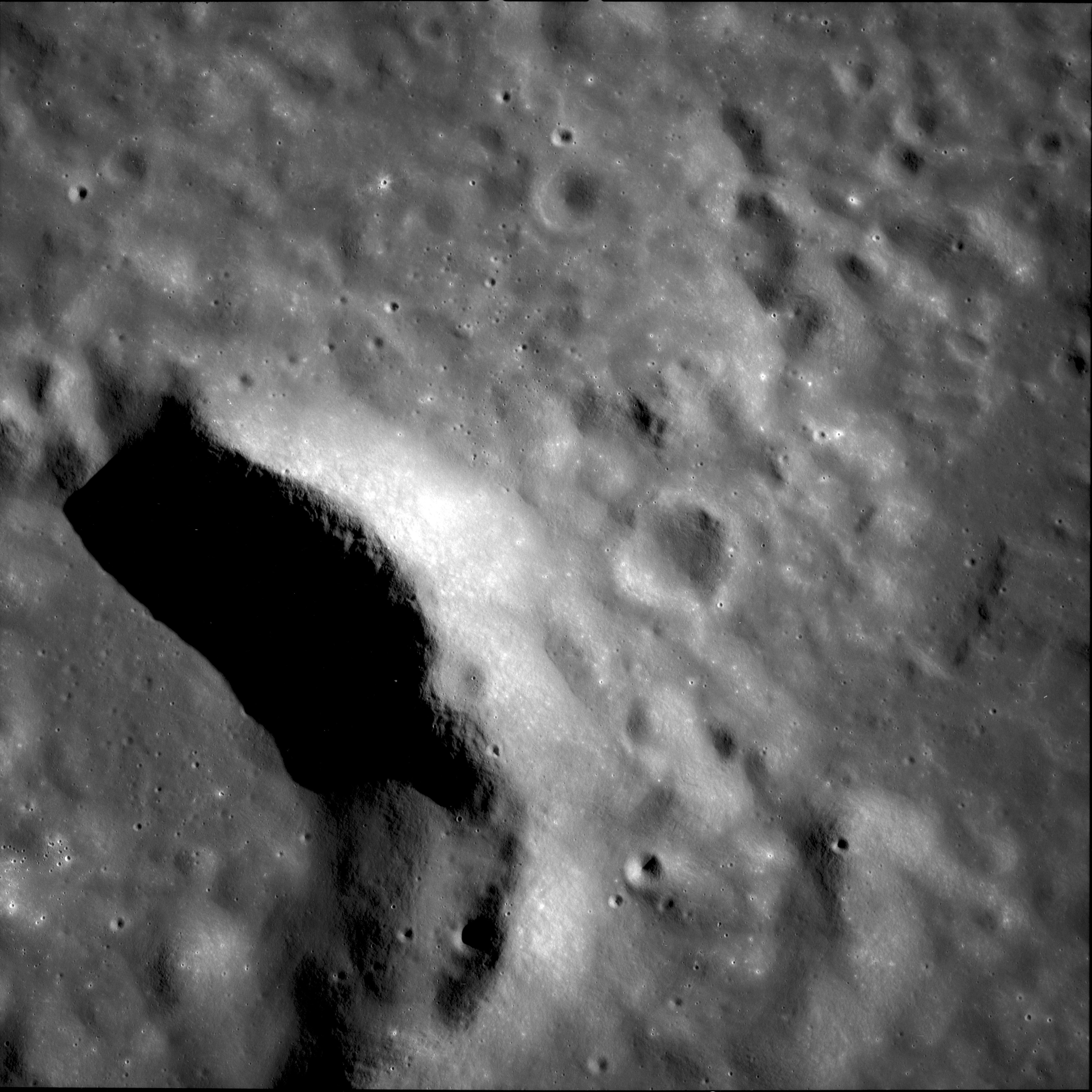 Eastern rim of crater Secchi on the Moon.